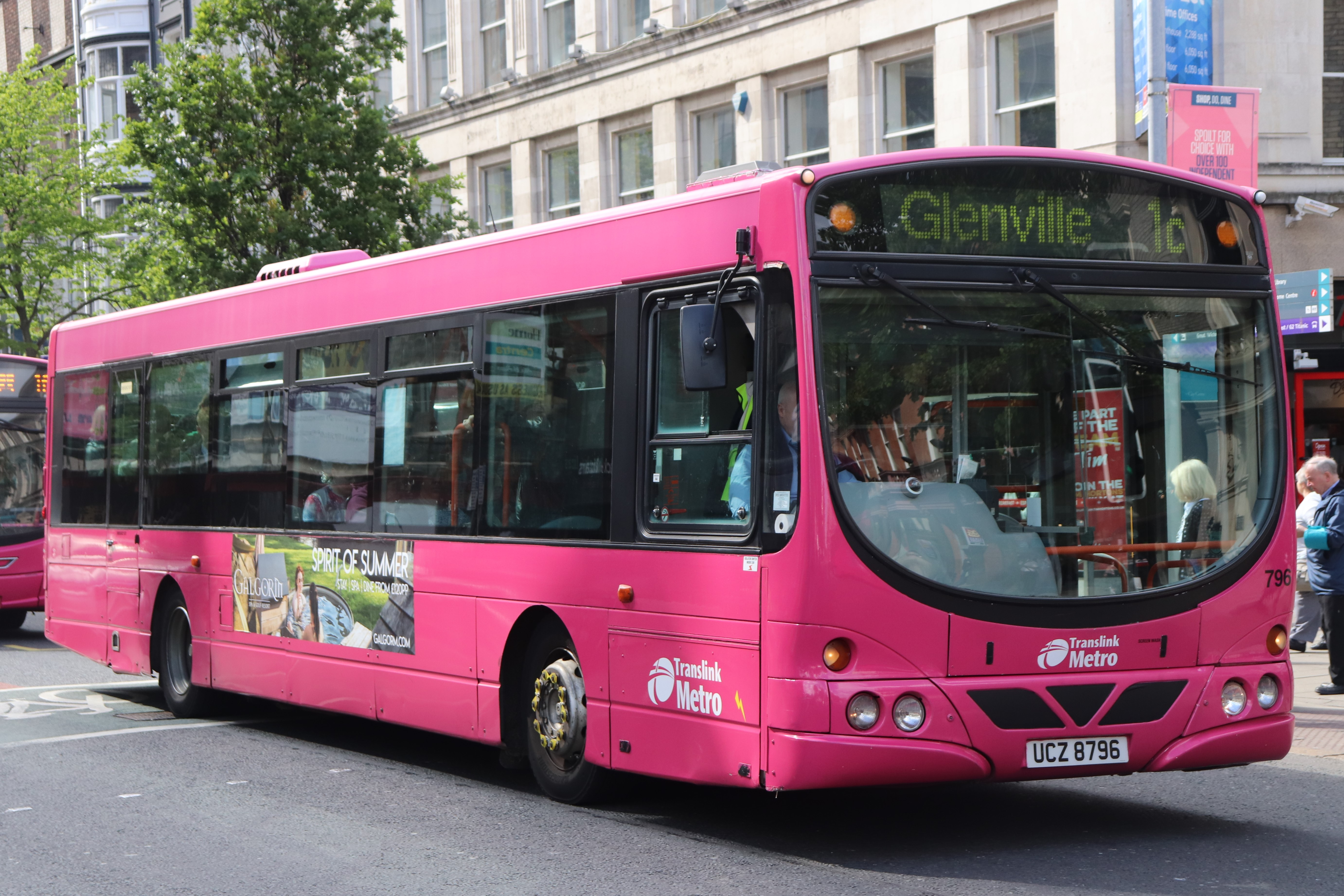 Metro Scania Solar in Belfast working route 1c to Glenville